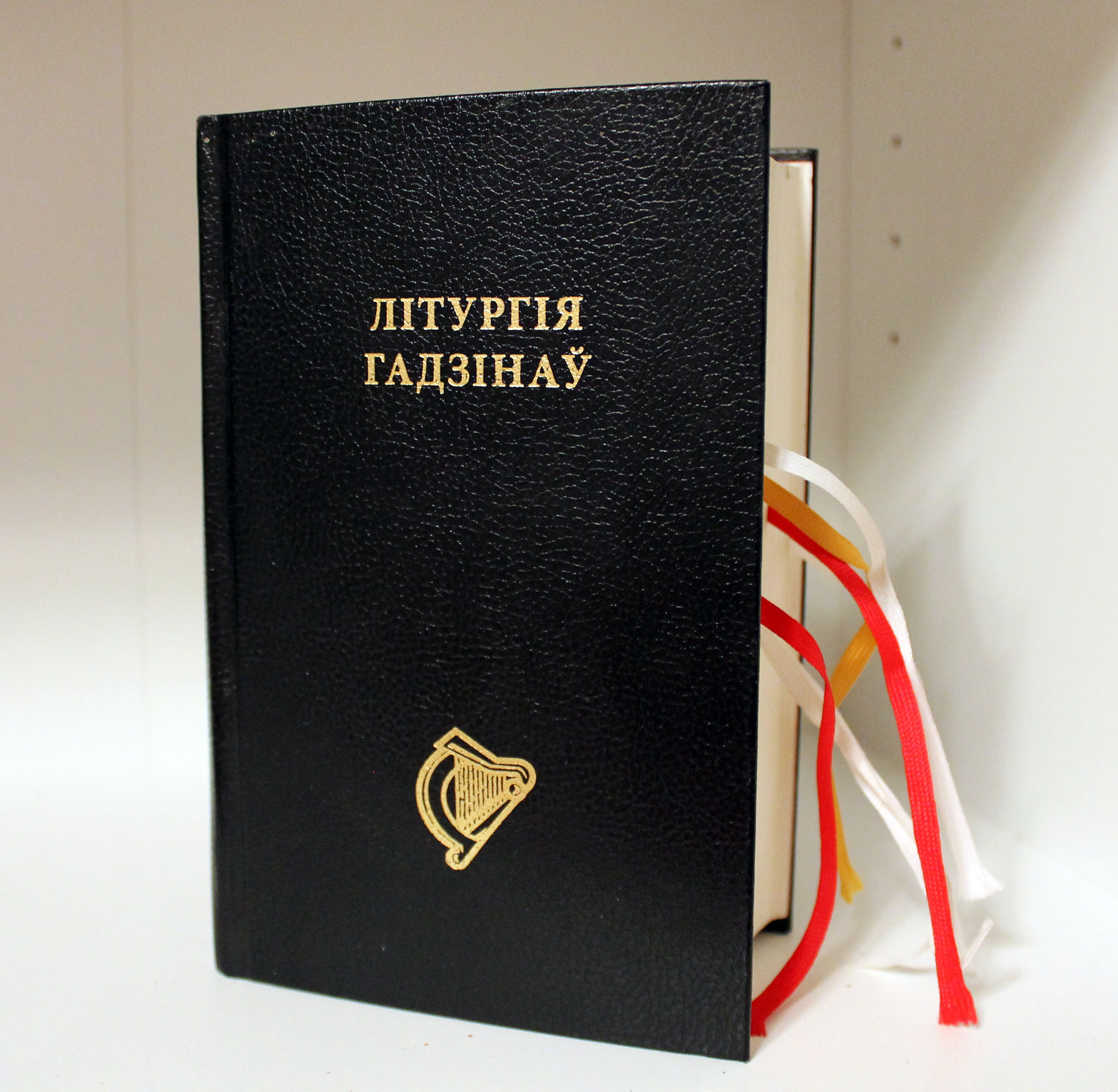 Liturgy of the Hours in Belarusian